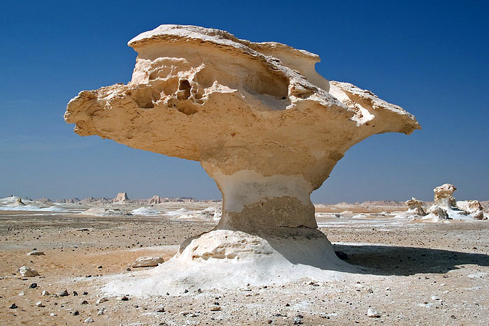 Eroded limestone sculpture, White Desert, Egypt